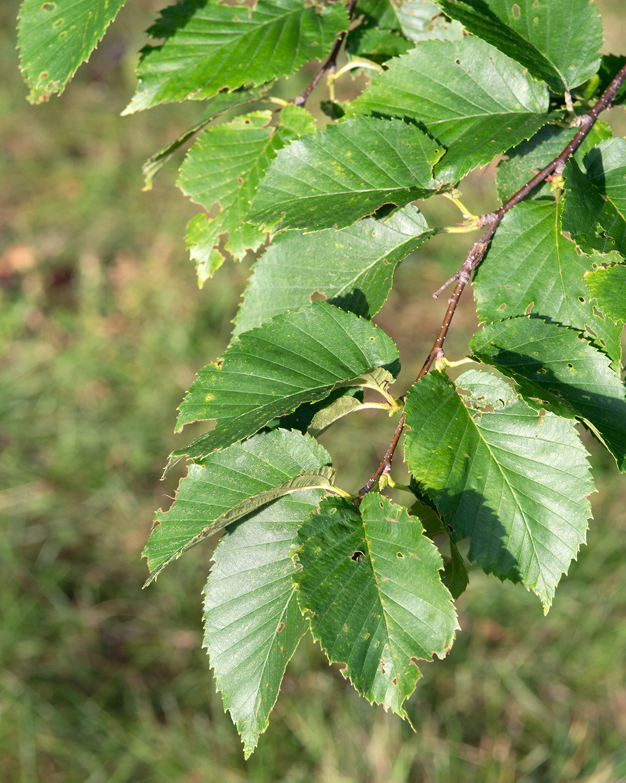 Betula Alleghaniensis (Yellow Birch) leaves